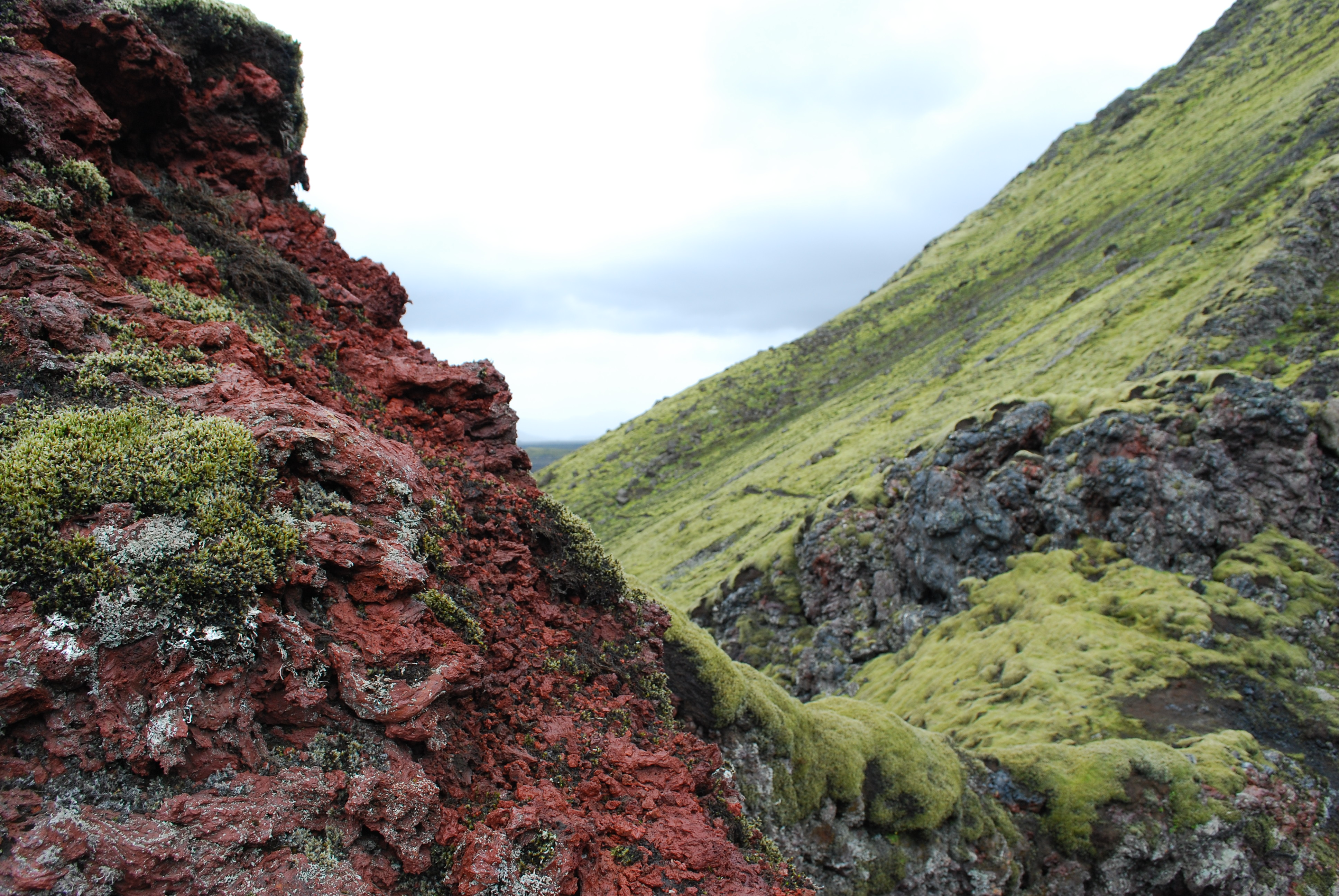 Sight to the basaltic lava in Laki volcano, Iceland